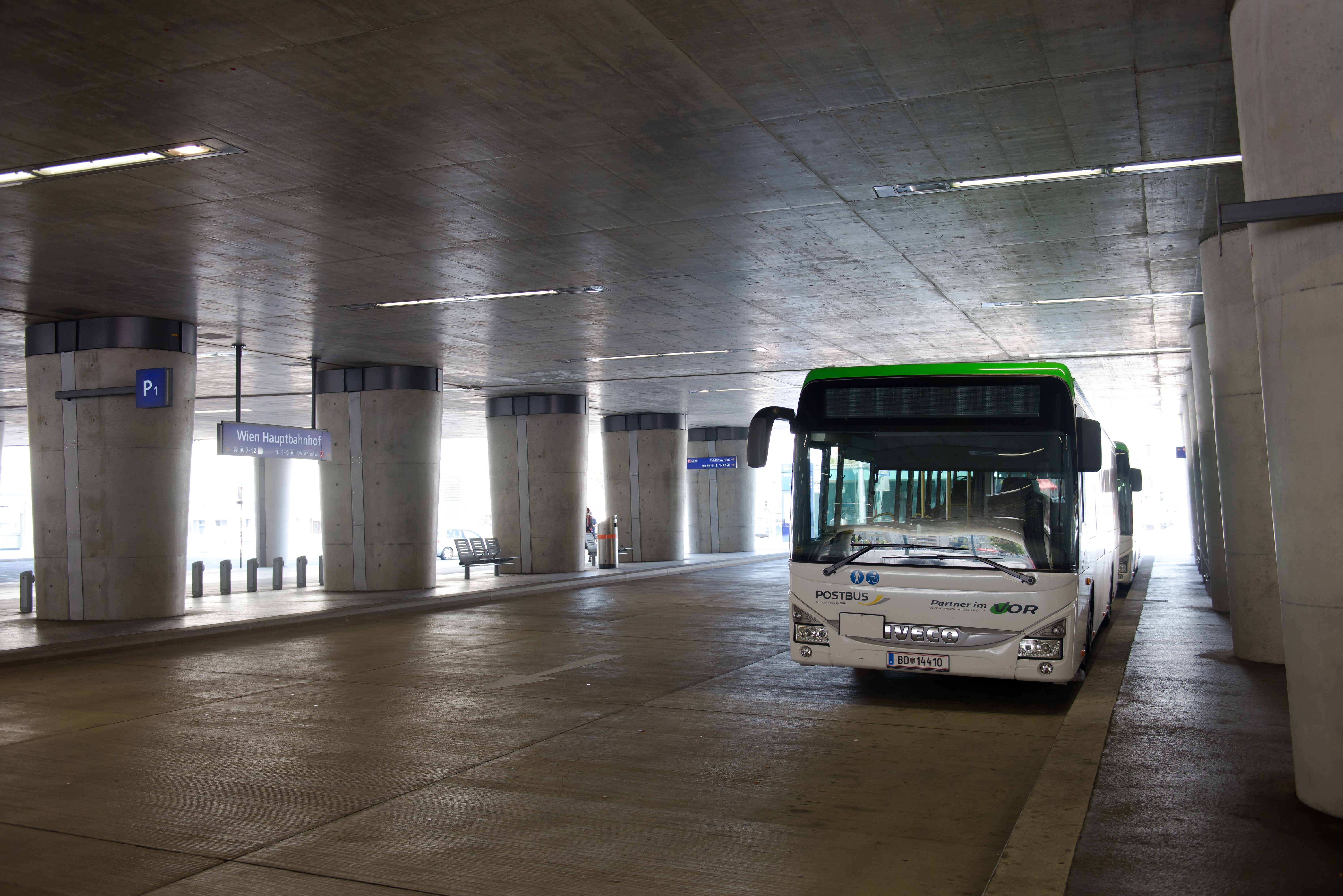 ÖBB-Postbus at the bus terminal at Hauptbahnhof Wien, Vienna, Austria.